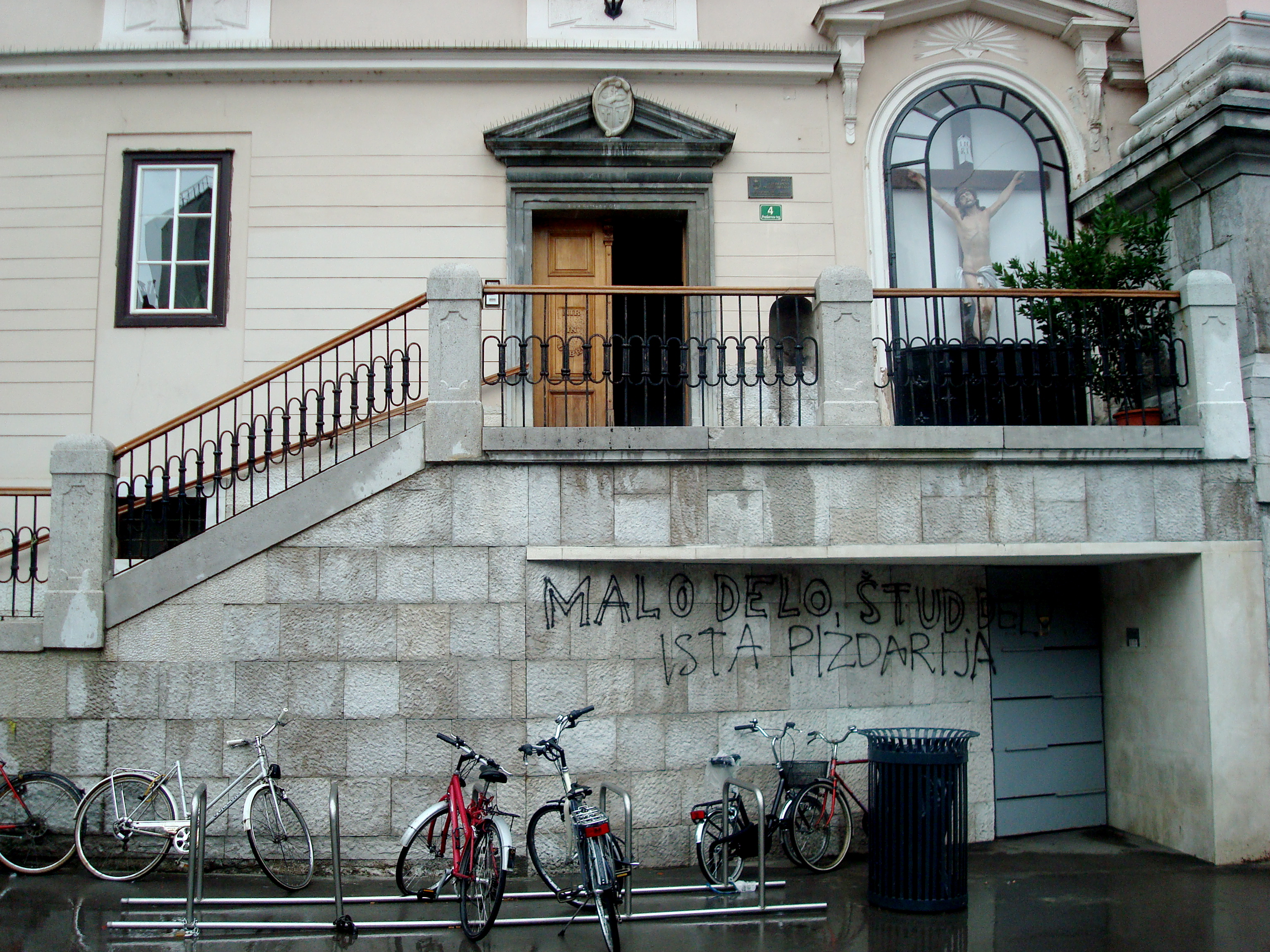 Catholic church, bikes and graffiti in Ljubljana (Slovenia)